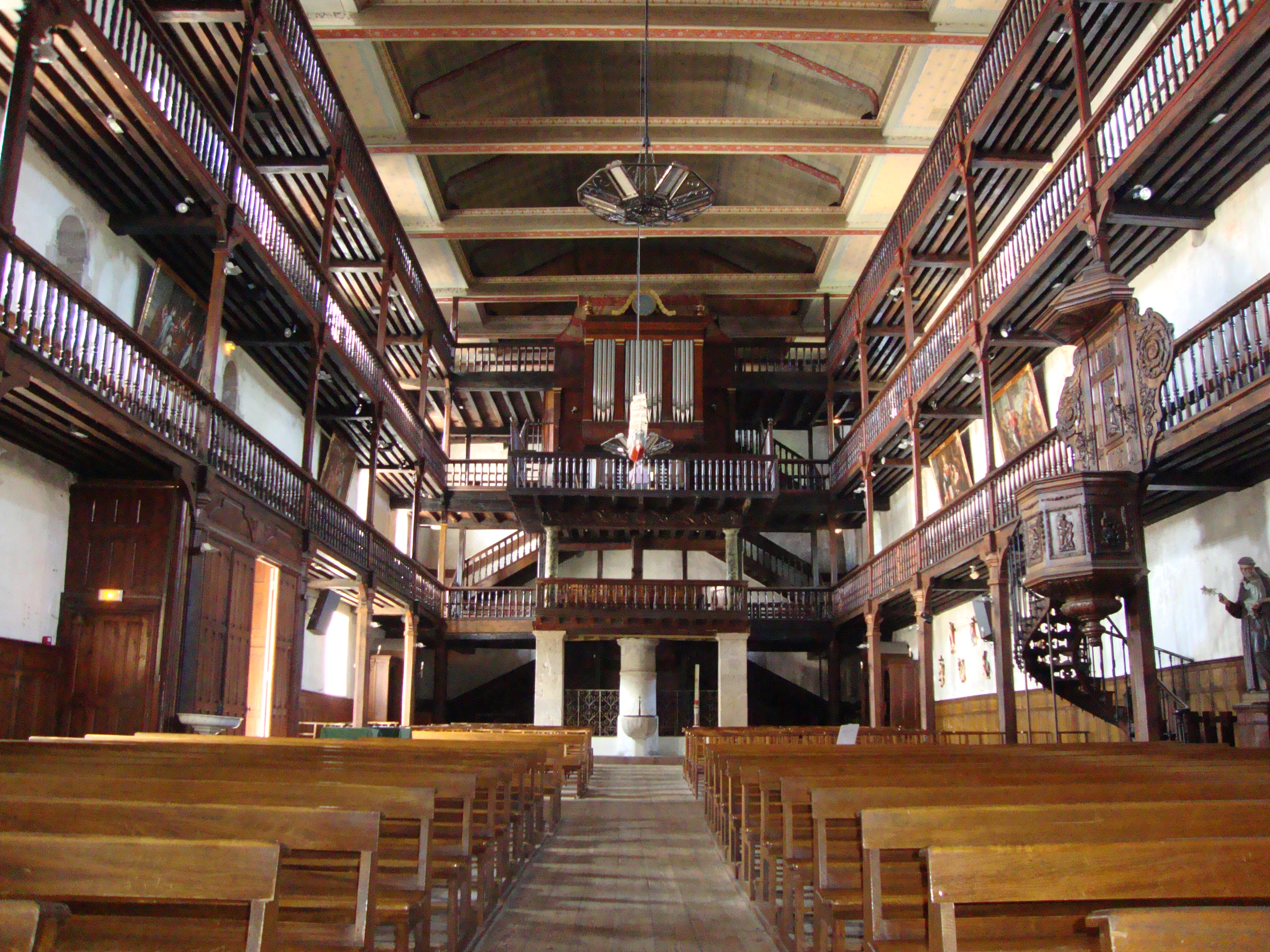 Ciboure (Pyr-Atl, Fr) St.Vincent, interior with three balconies.